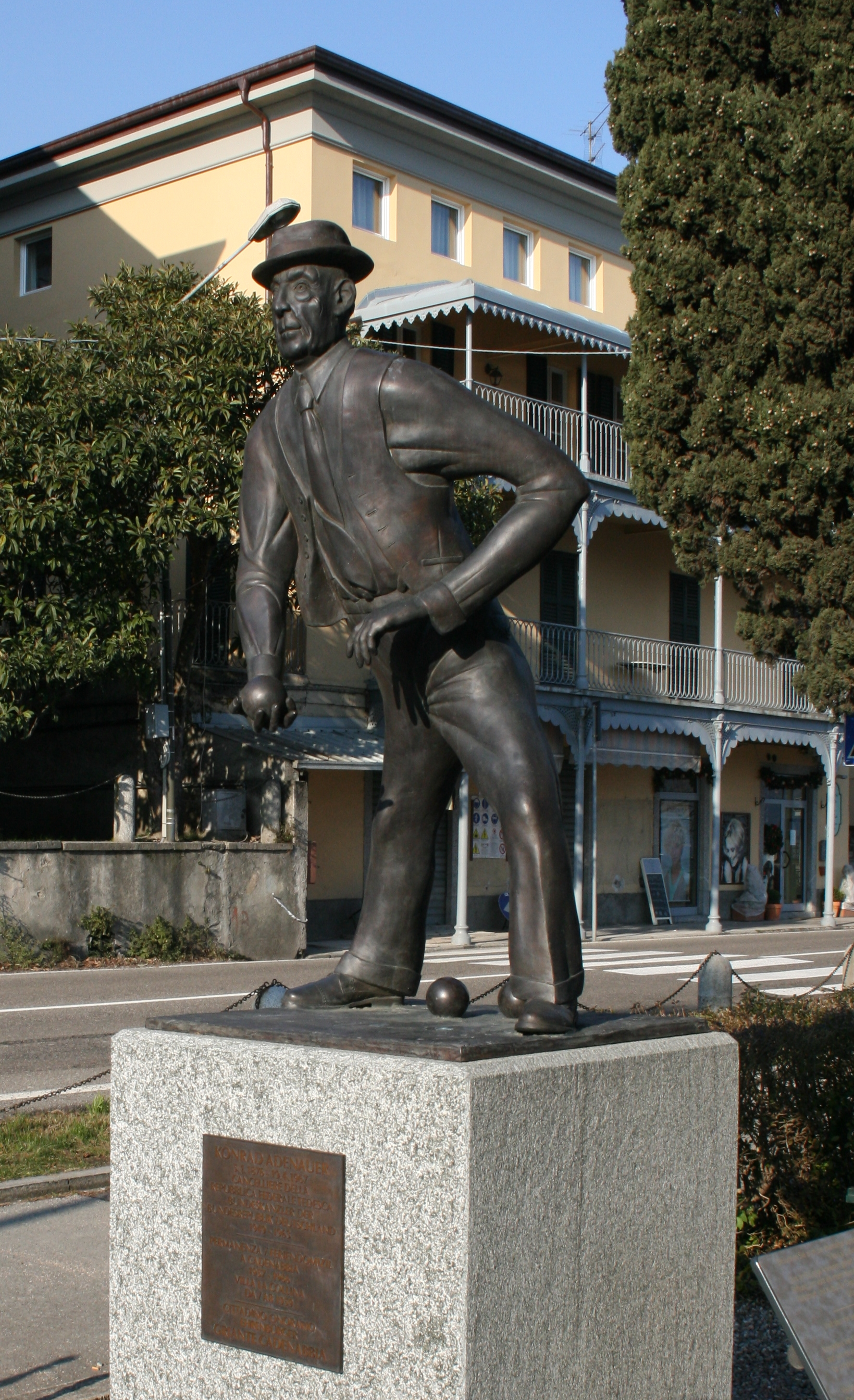 Italy, Cadenabbia on Lake Como; memorial to german cancellor Konrad Adenauer, who spent 1957-1966 regular holiday and was named an honorary citizen.